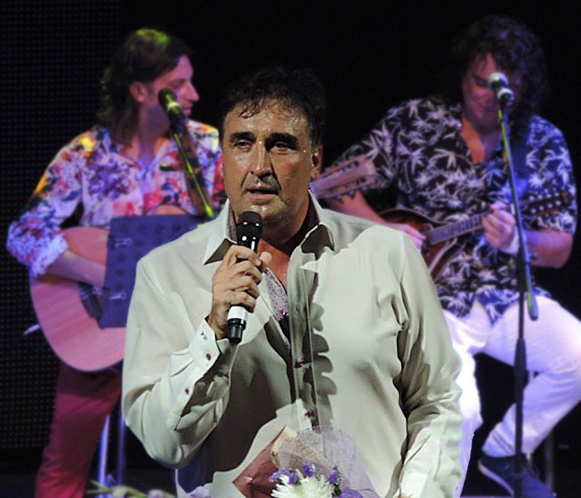 Bulgarian singer Veselin Marinov, Sozopol, Bulgaria